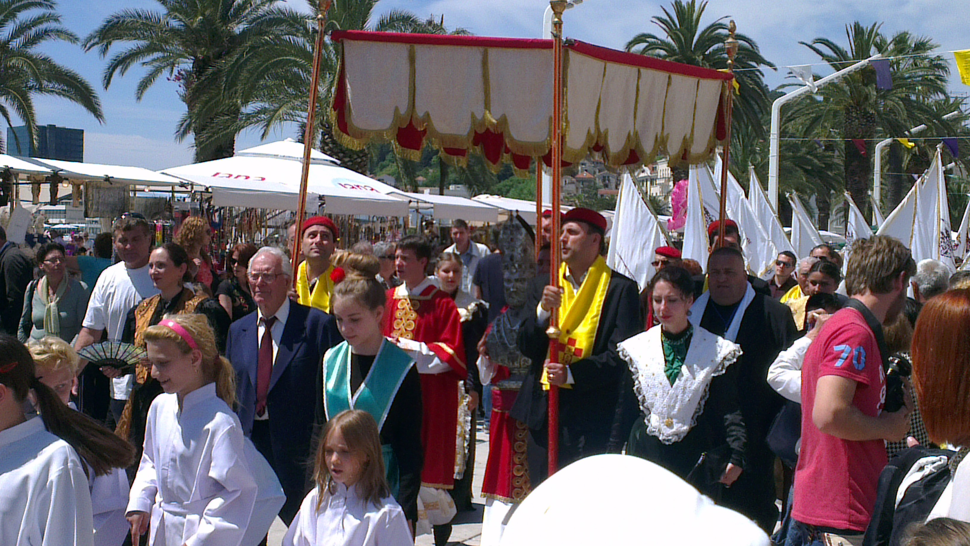 Sudamja